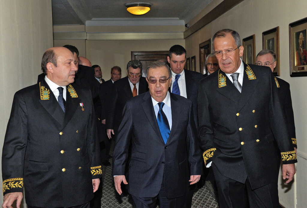 “Russian Foreign Minister Sergey Lavrov at a reception on Diplomat Day”. From left: former Russian Foreign Ministers Igor Ivanov and Yevgeny Primakov, and current minister Sergey Lavrov at a reception on Diplomat Day at the Russian Justice Ministry.